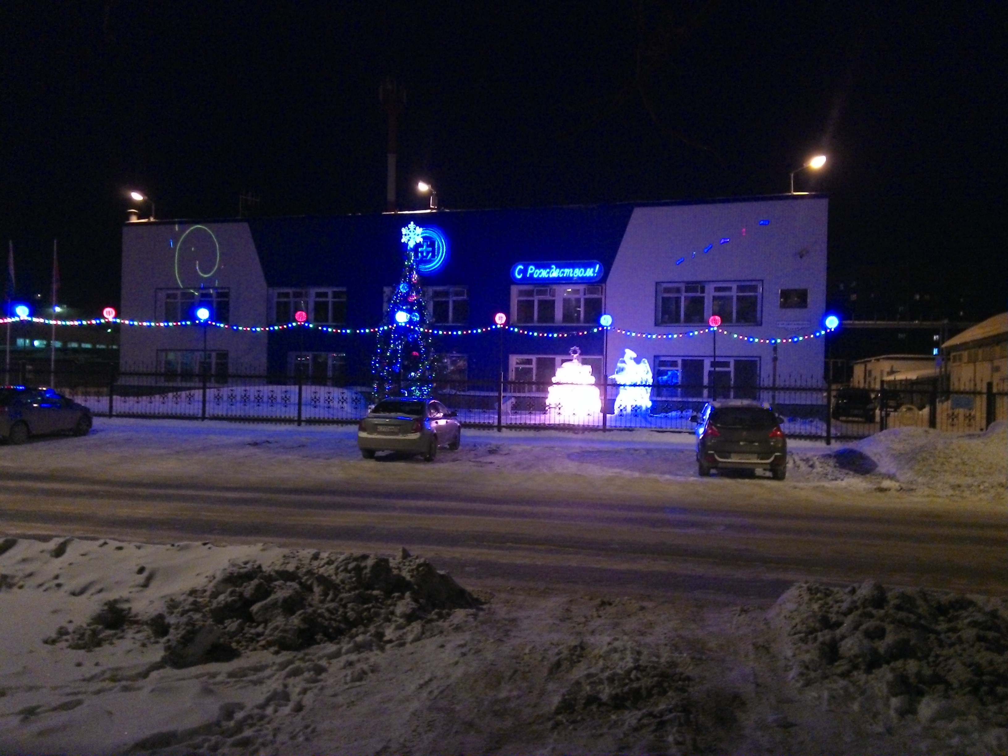 НПО "Мир"